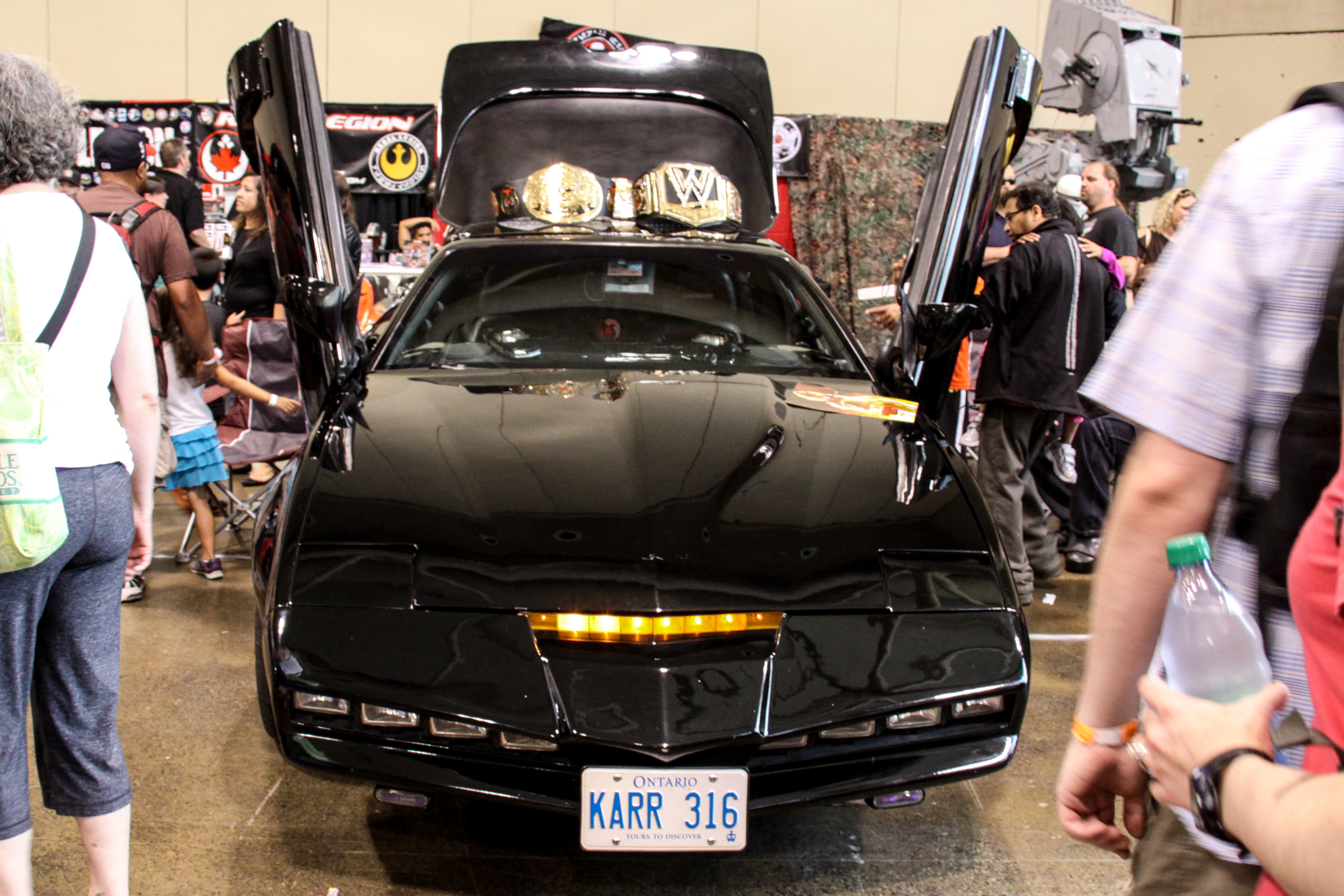 Replica of KARR (Knight Automated Roving Robot) with Ontario plates at Fan Expo Canada in Toronto in 2013.